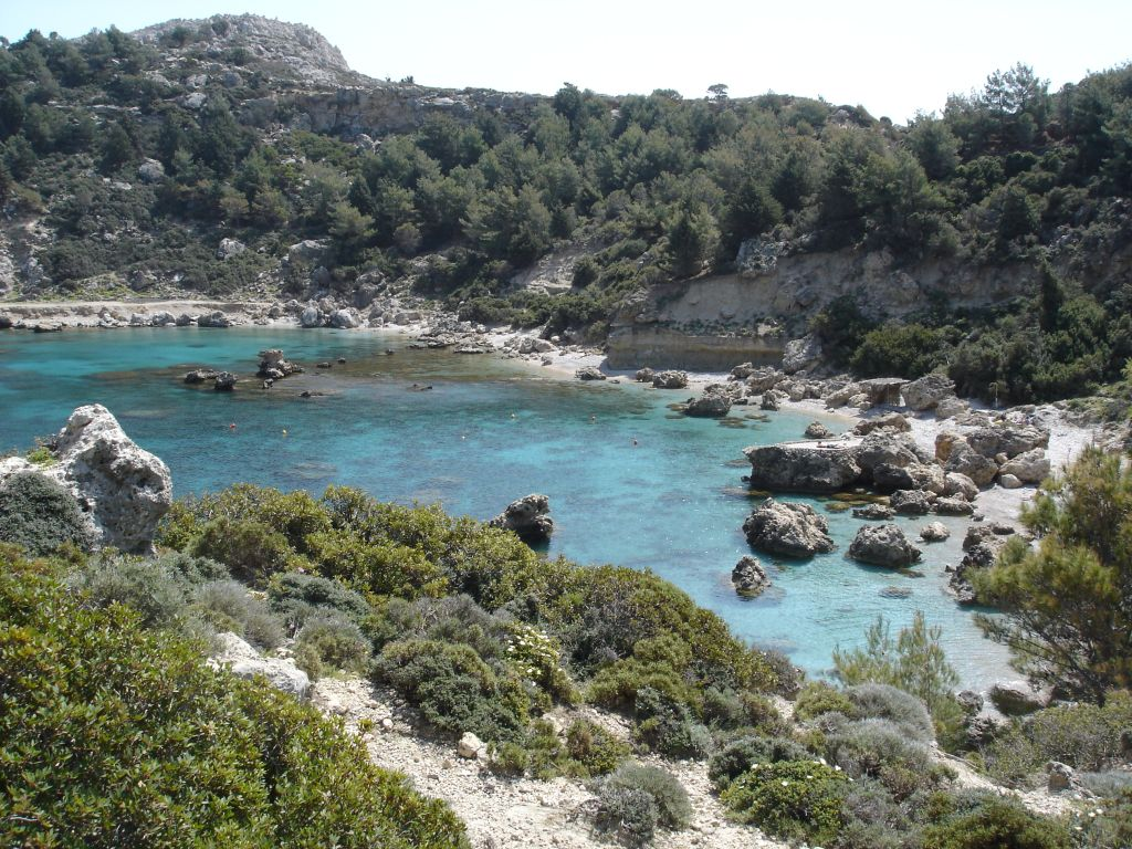 Anthony Quinn bay, Rhodes, Greece